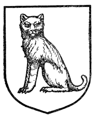 Fig. 334.—Cat-a-mountain sejant guardant.